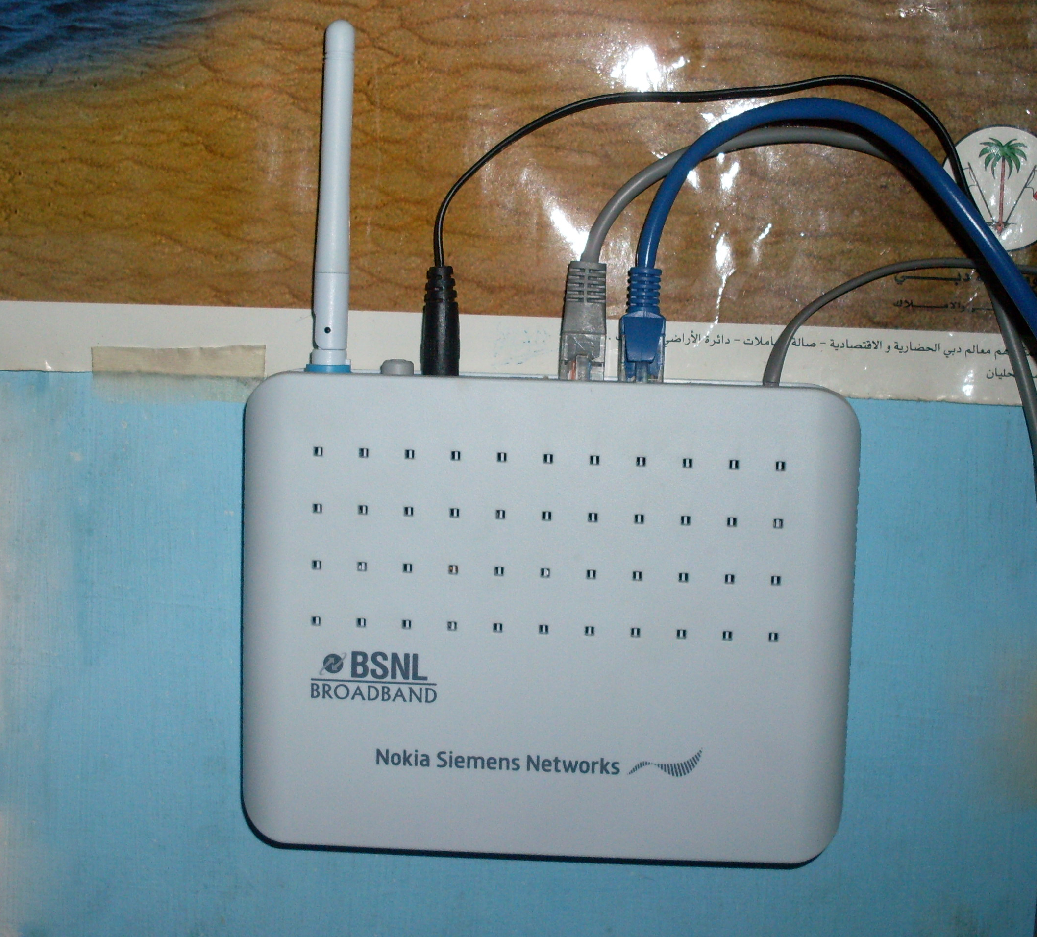 ADSL modem - Nokia Siemens 1600